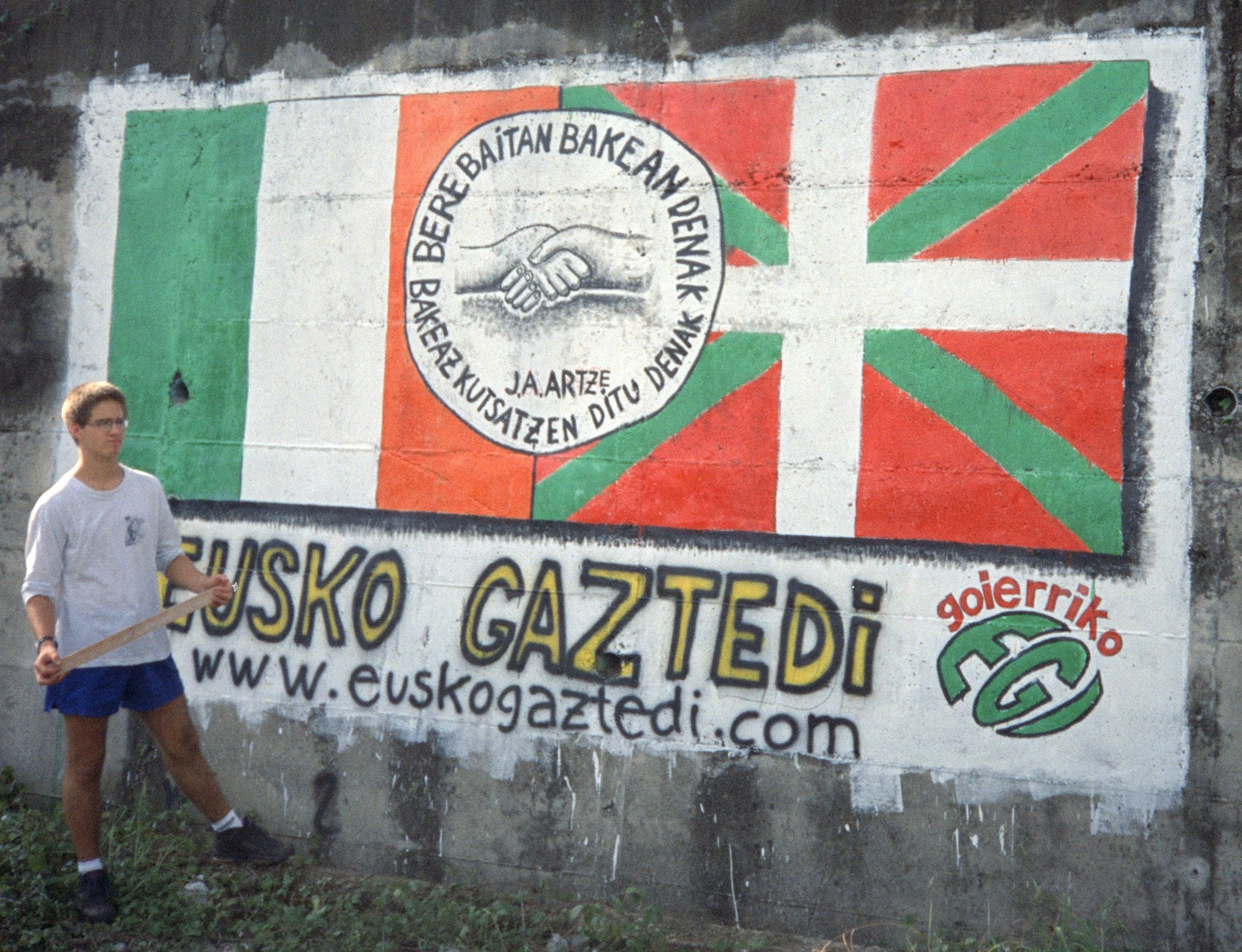 Mural with Irish flag and Basque Country ikurrina, made by EGI (EAJ youth organization), in the Legorreta (Gipuzkoa) train station.